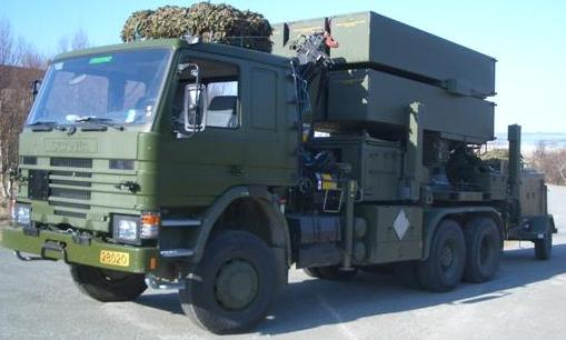 Nasams launcher on Scania 113H truck. Picture taken late April 2005 by me.